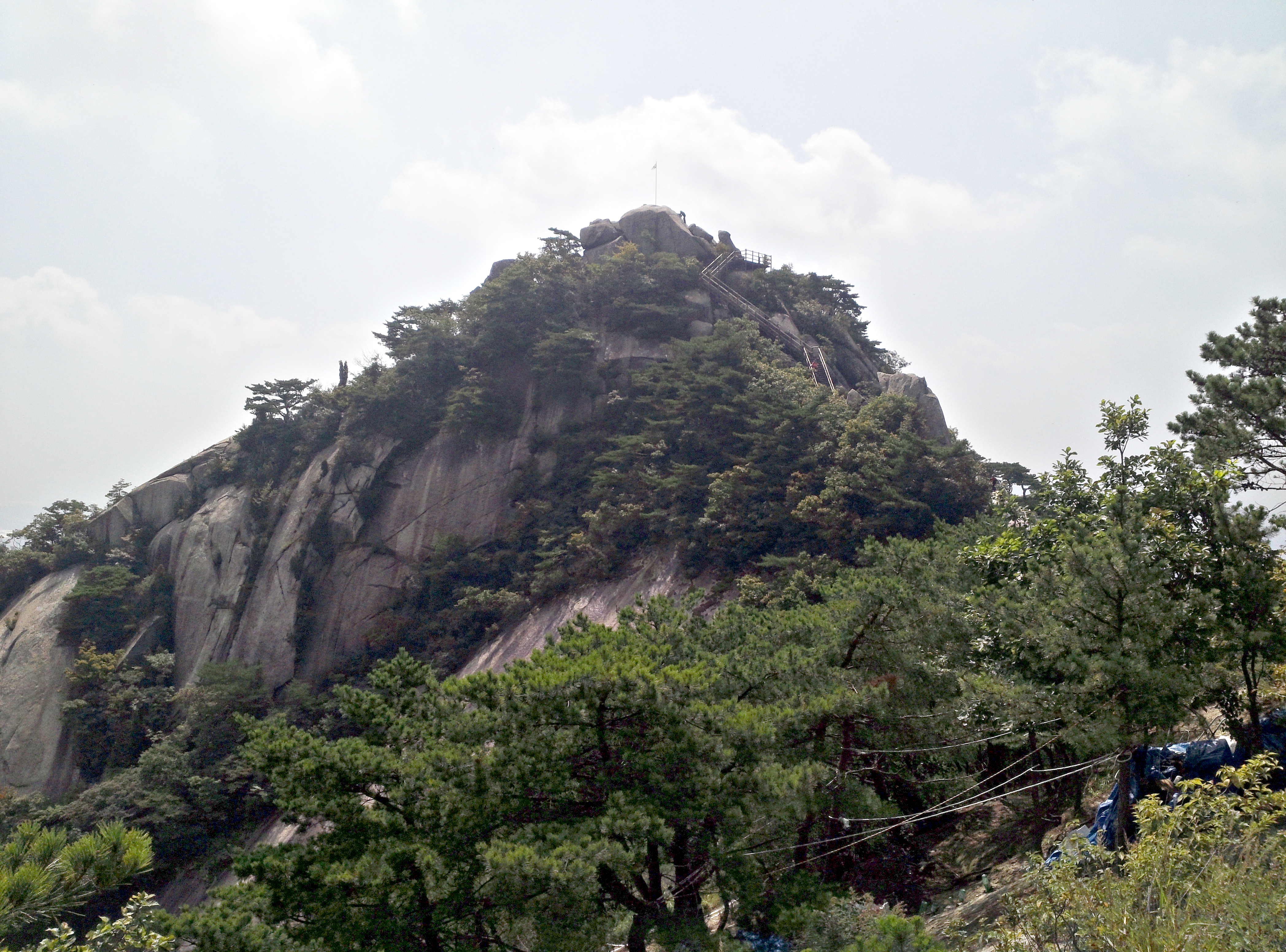 Summit of Buramsan Mountain, Seoul Korea